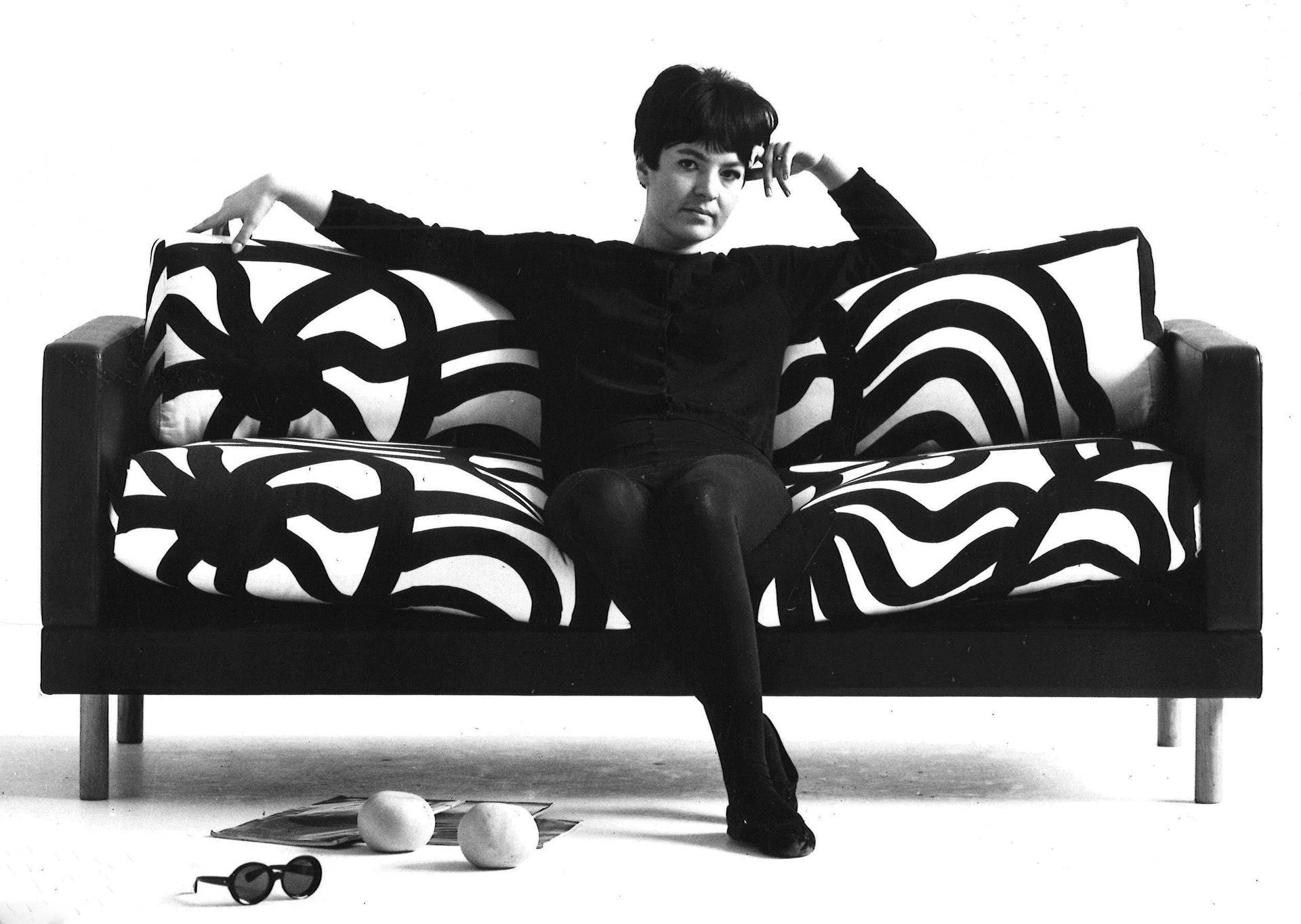 Photograph of the Finnish interior architect Vuokko Laakso (1937–2015) sitting on the “Chameleon” couch, designed by her husband Totti Laakso (1930–2014).